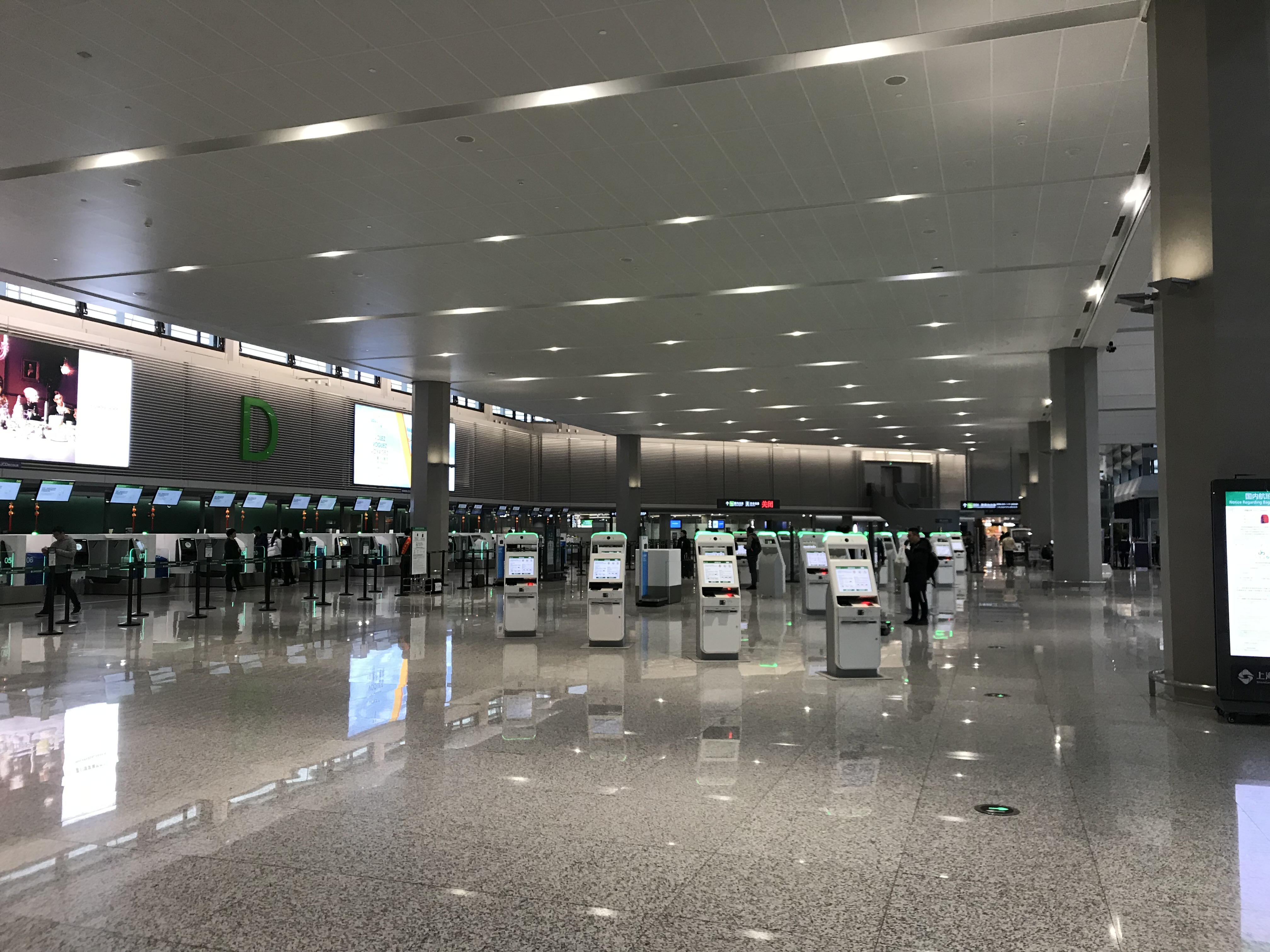 Dedicated for Spring Airlines' domestic flights...